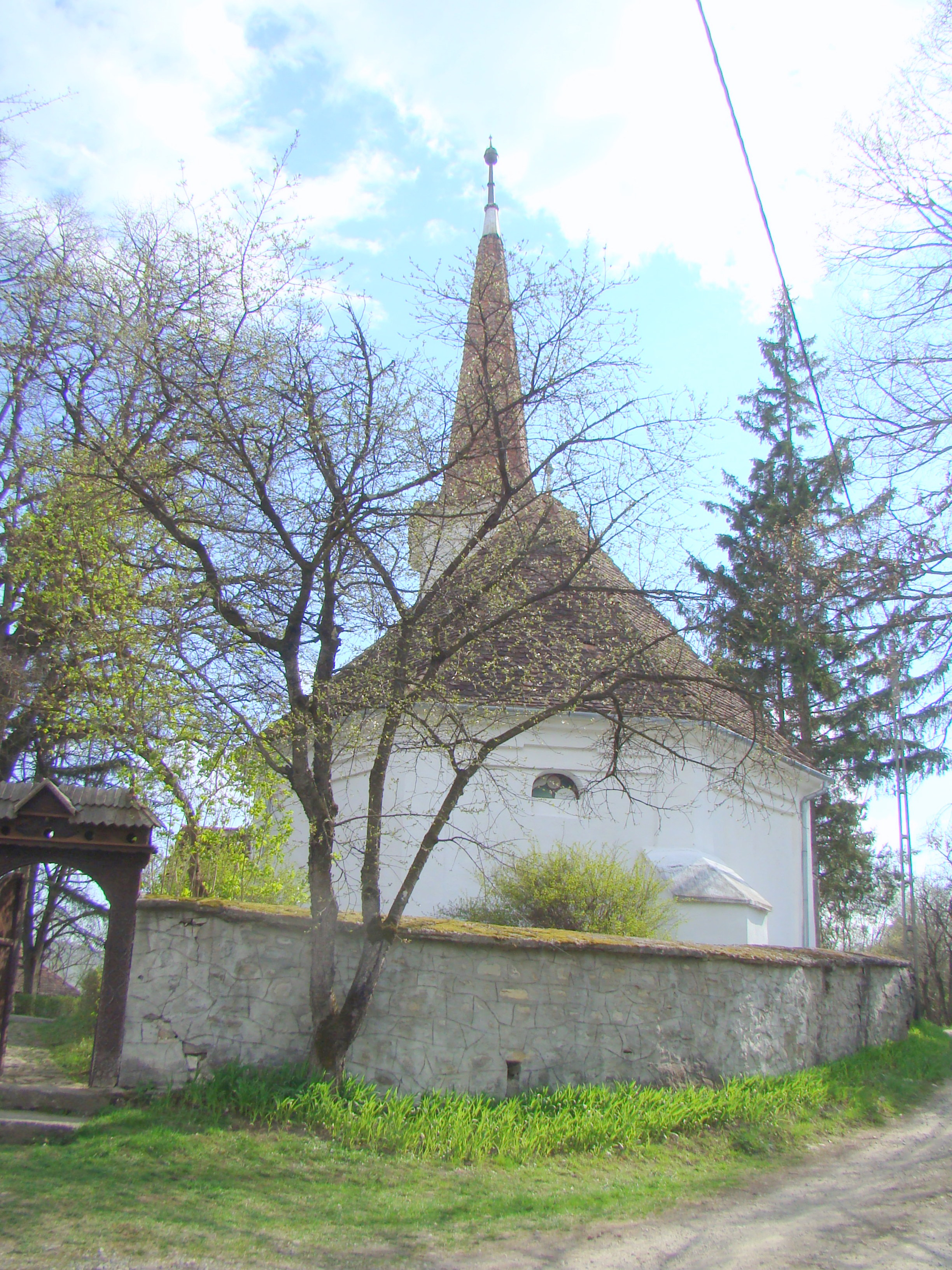 Unitarian church in Șimonești, Harghita county, Romania